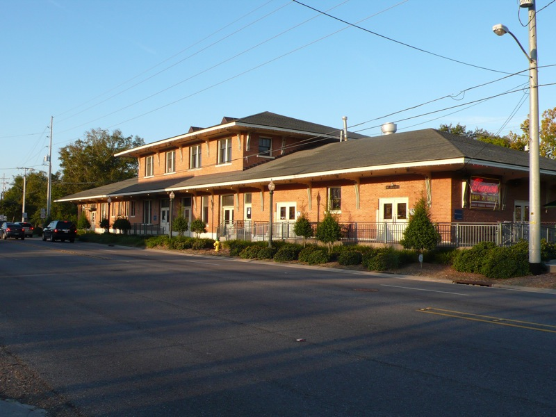 Train Station downtown Slidell, LA